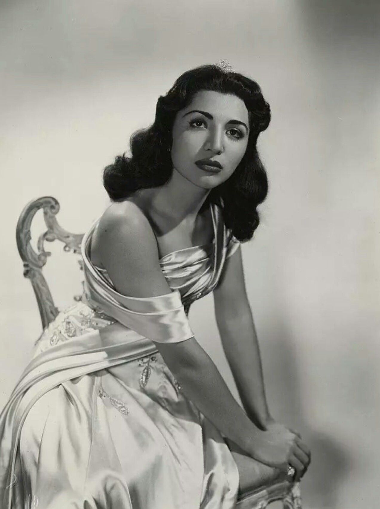 Princess Fatimeh Pahlavi